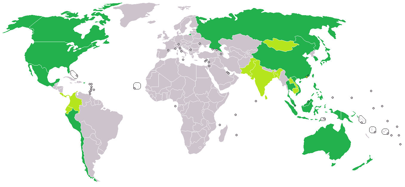 dark green - current members; light green - applicants Other information Based on File:World map model.png.